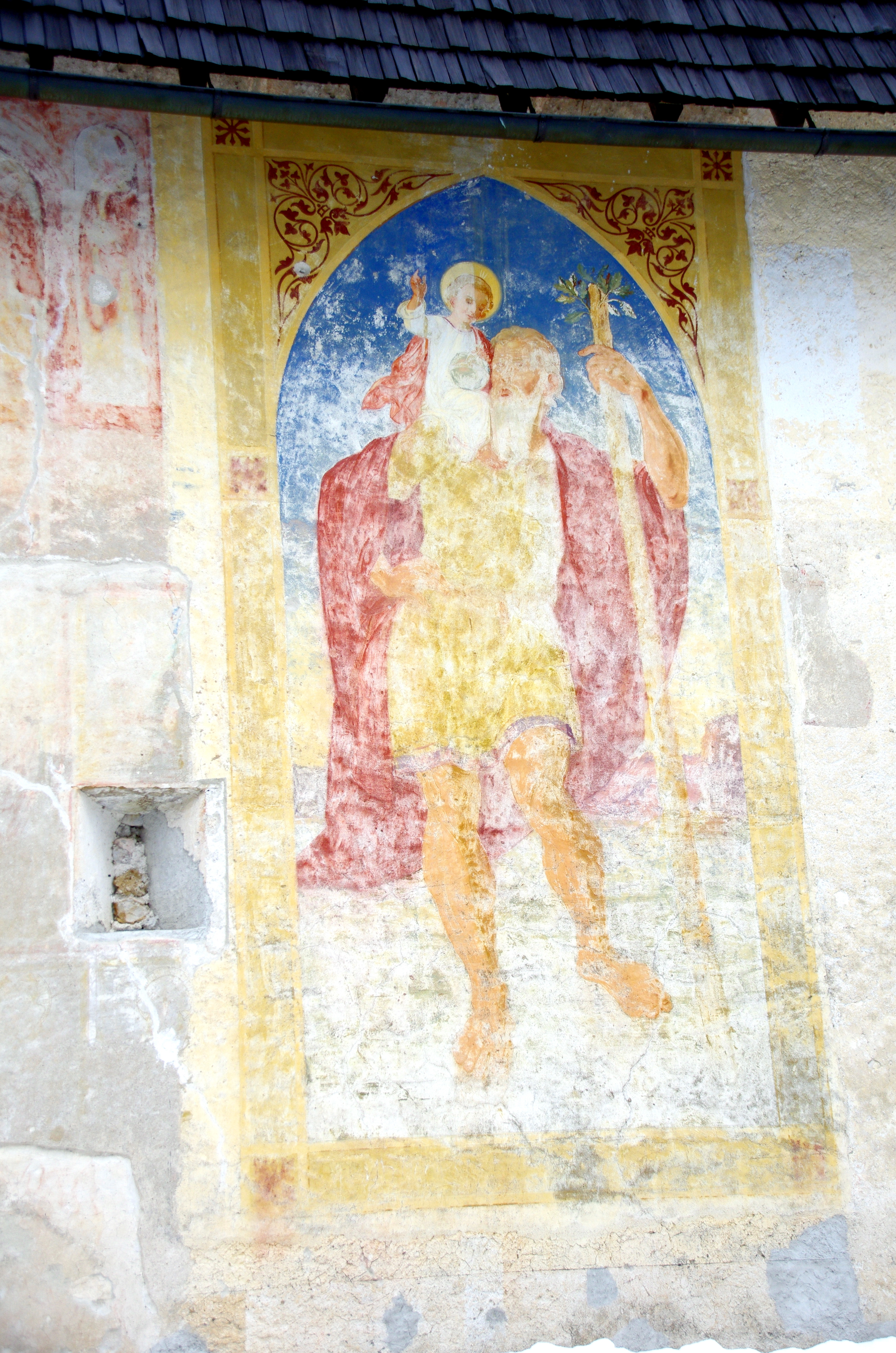 Fresco of St. Christopher on the outside wall of St. John the Baptist's Church in Ribčev Laz, Municipality of Bohinj (northwestern Slovenia). Work by Jernej from Loka; 16th century.